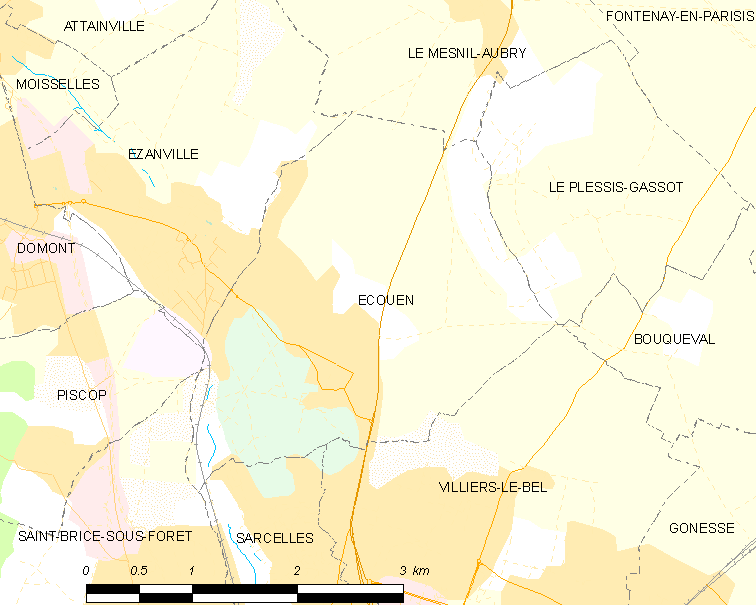 Map of French municipality Écouen